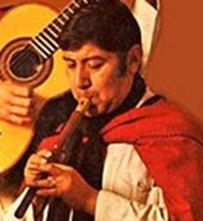 Los_Fronterizos. Cover Album "Los 25 años (1979) de Los Fronterizos". Gerardo Lopez. Folk. Argentina.